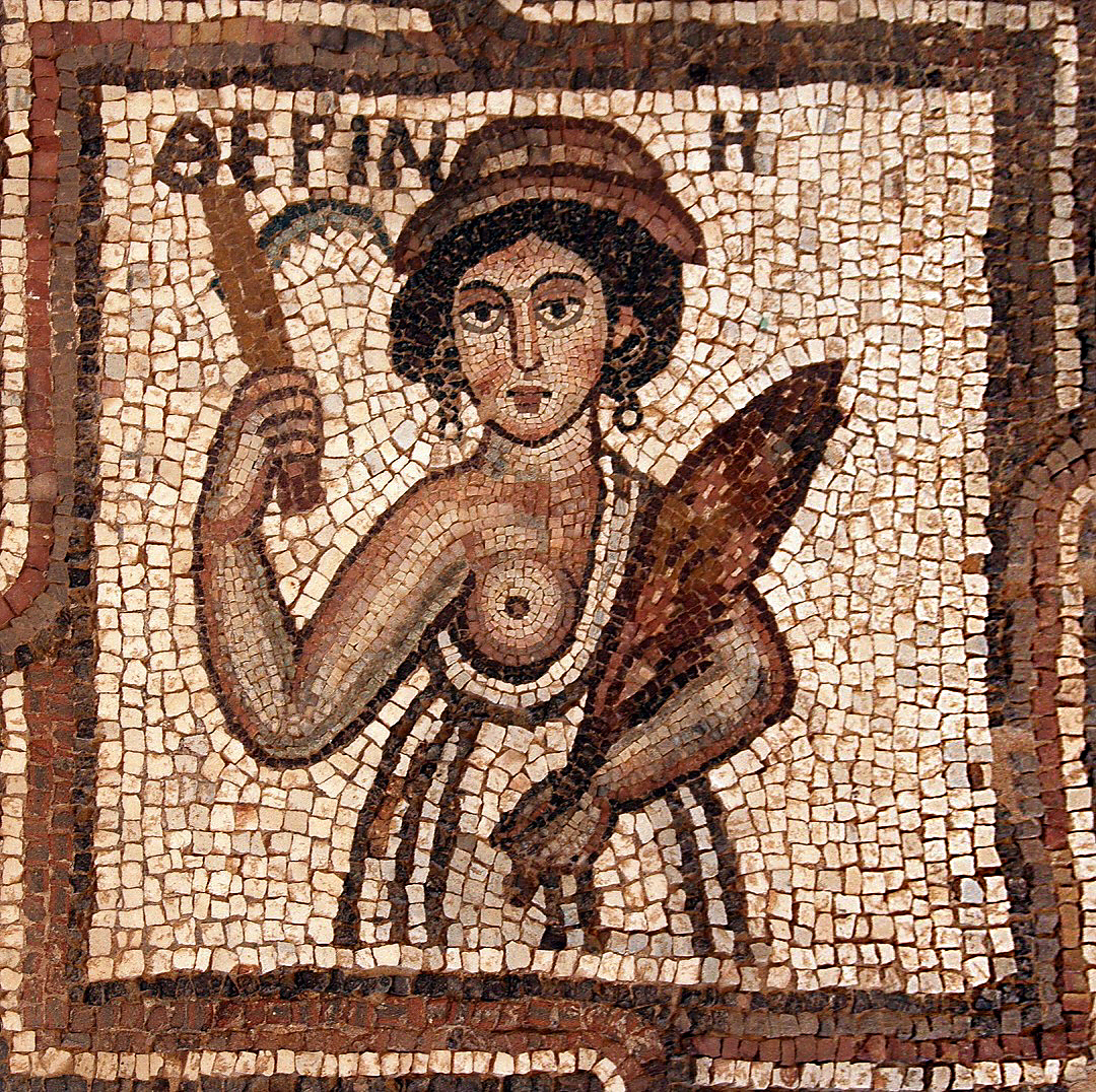 see above